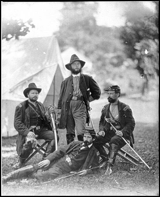 Title: Westover Landing, Va. Col. James H. Childs (standing) with other officers of the 4th Pennsylvania Cavalry Abstract: Selected Civil War photographs, 1861-1865 (Library of Congress) Physical description: 1 negative : Notes: Cavalry; Peninsular Campaign, 1862.